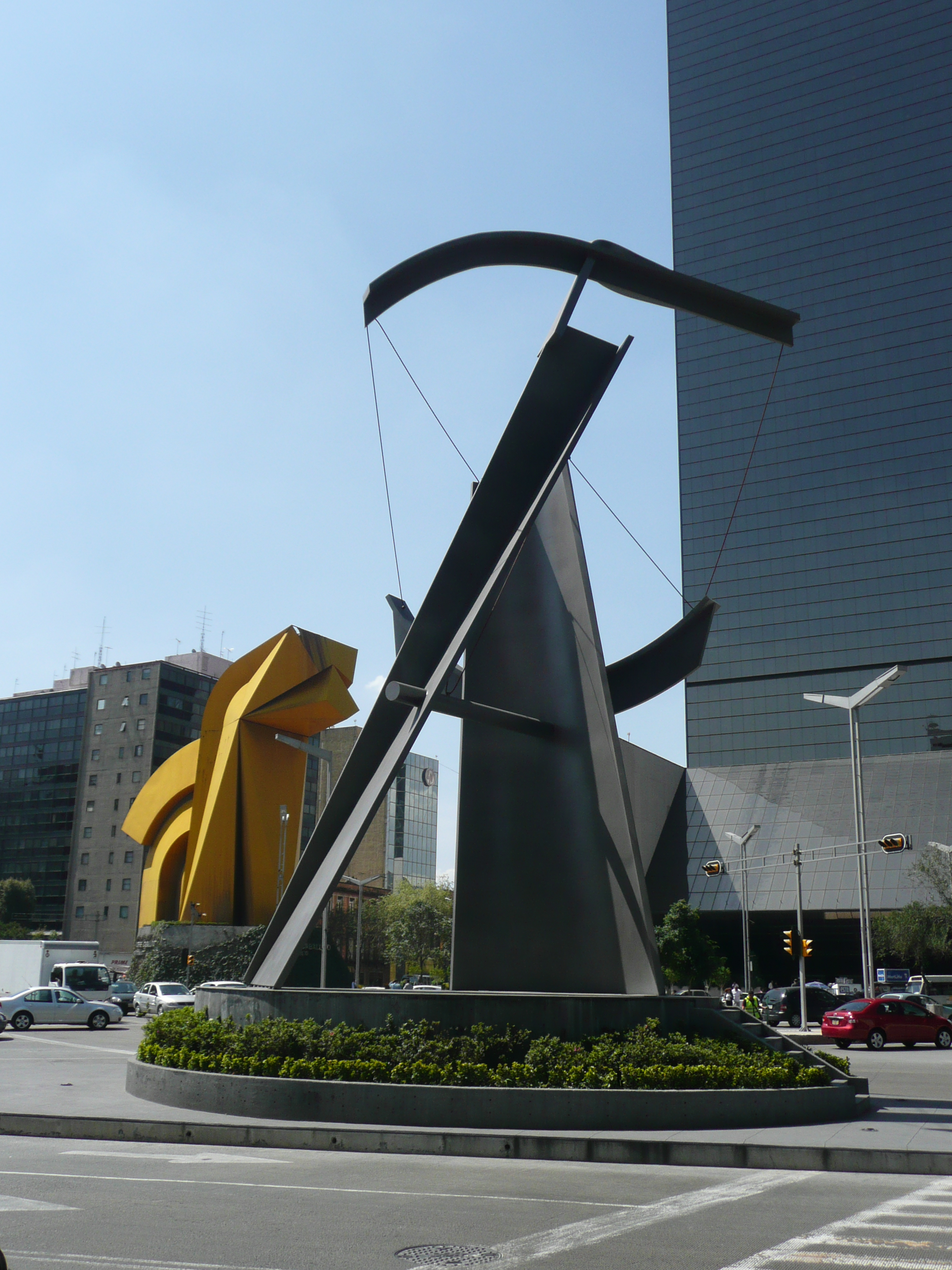 Two monuments along the Paseo de la Reforma